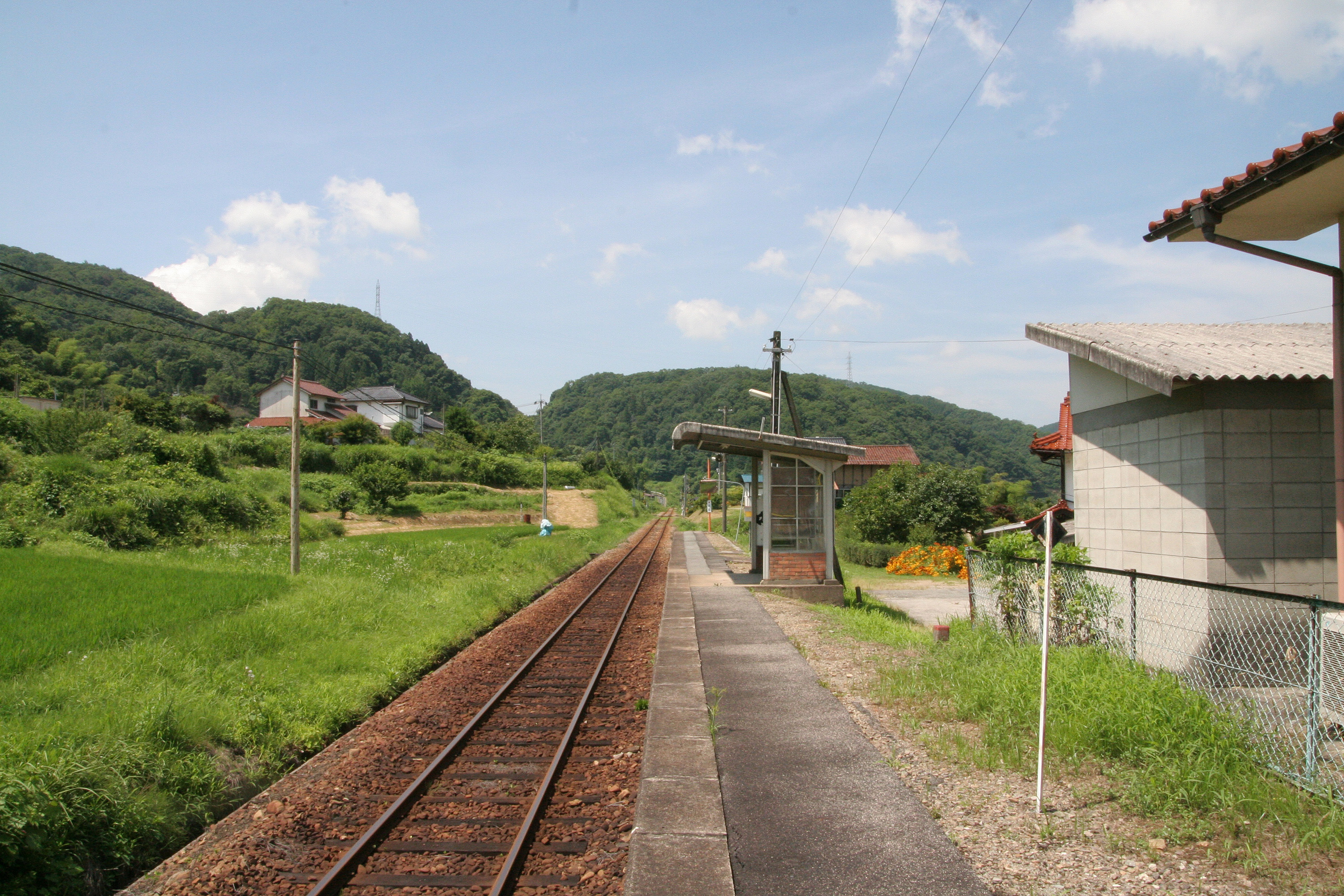 West Japan Railway Sankō Line Awaya Station enclosure